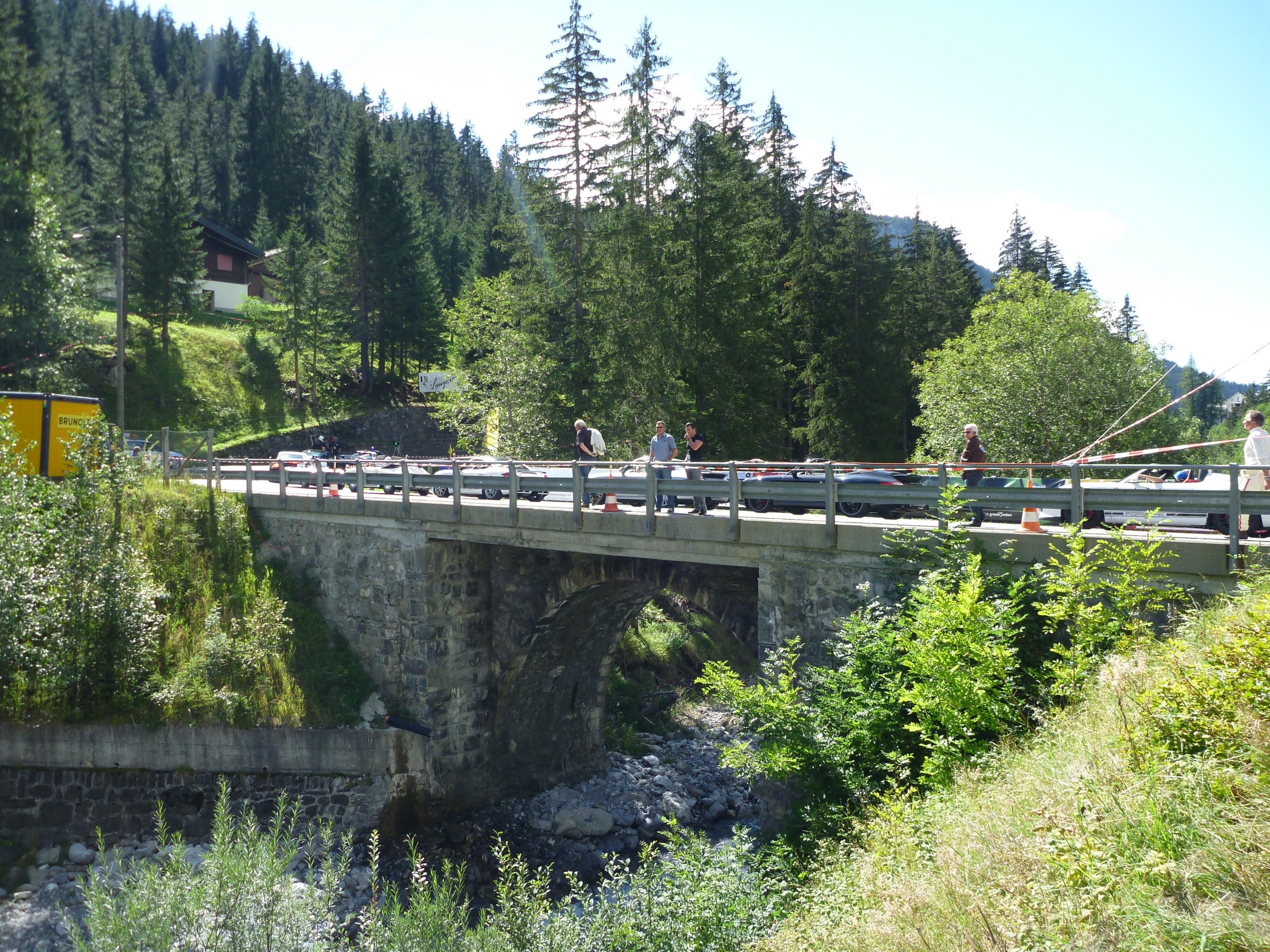 road bridge at Langwies during Arosa ClassicCar